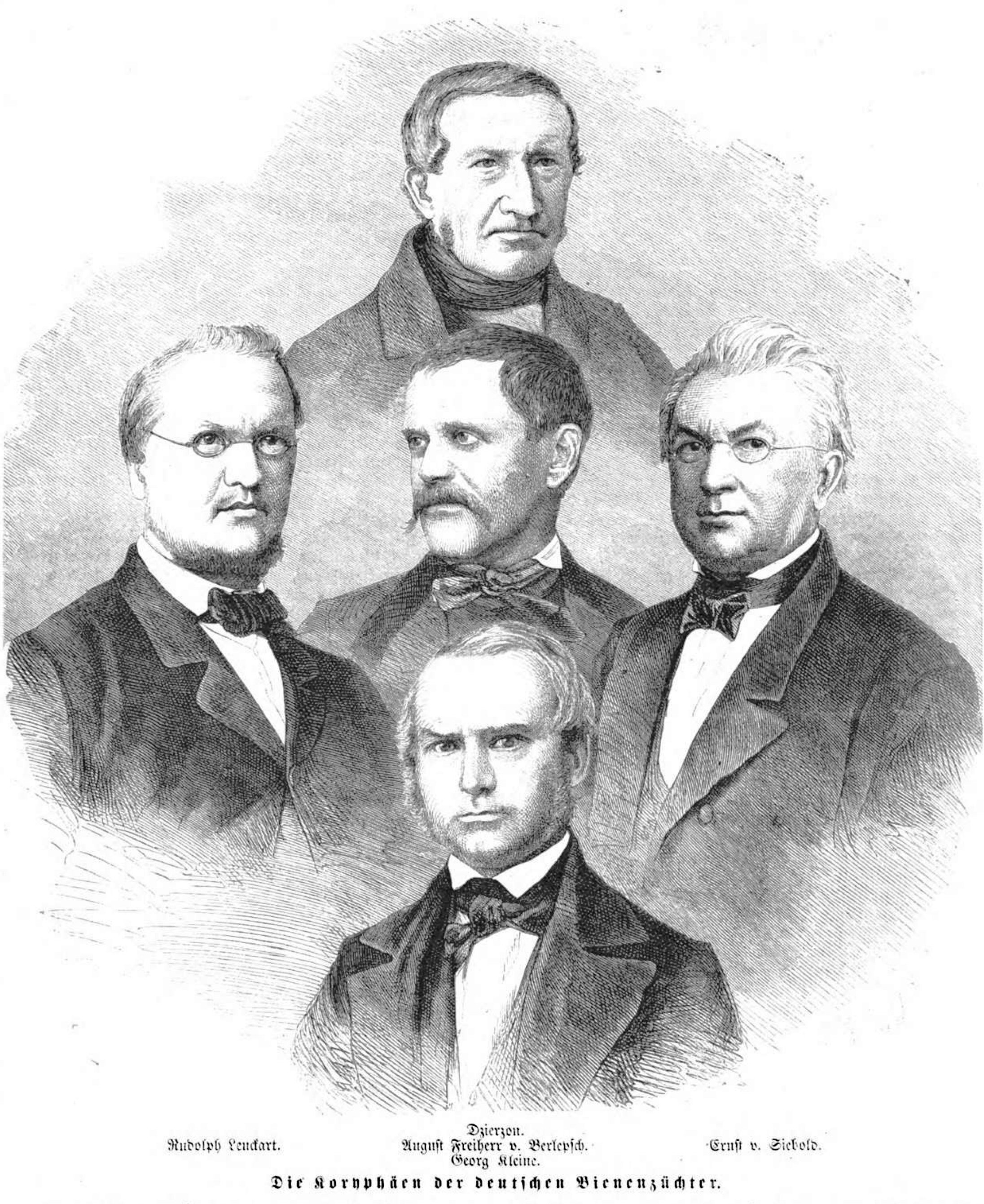 caption: "Dzierzon.Rudolph Leuckart. August Freiherr v. Berlepsch. Ernst v. Siebold.Georg Kleine.Die Koryphäen der deutschen Bienenzüchter."